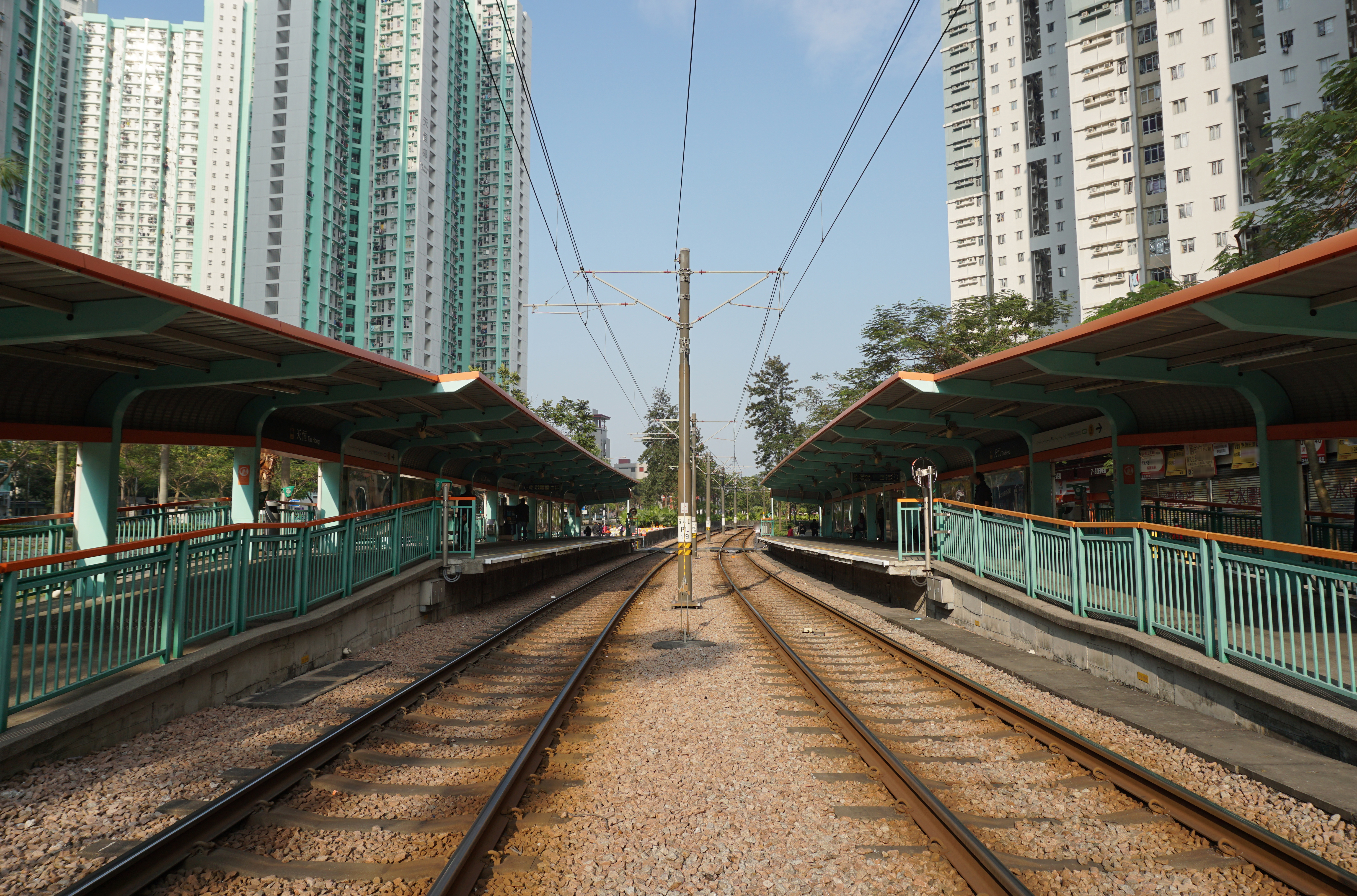 Tin Heng Stop in Tin Shui Wai, Hong Kong.